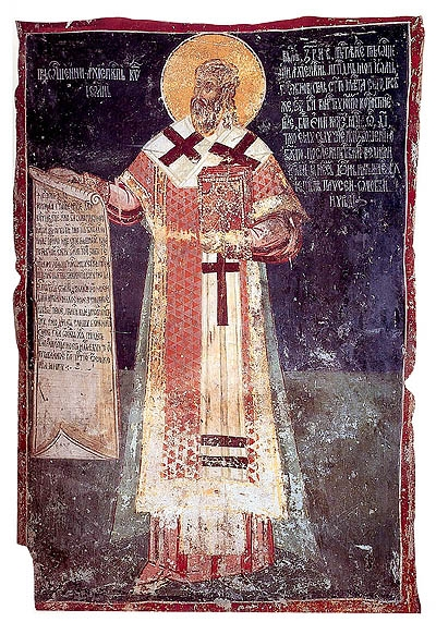 Fresco in the Patriarchate of Peć depicting Serbian Patriarch Jovan Kantul (fl. 1592–d. 1614), dating to 1619–20